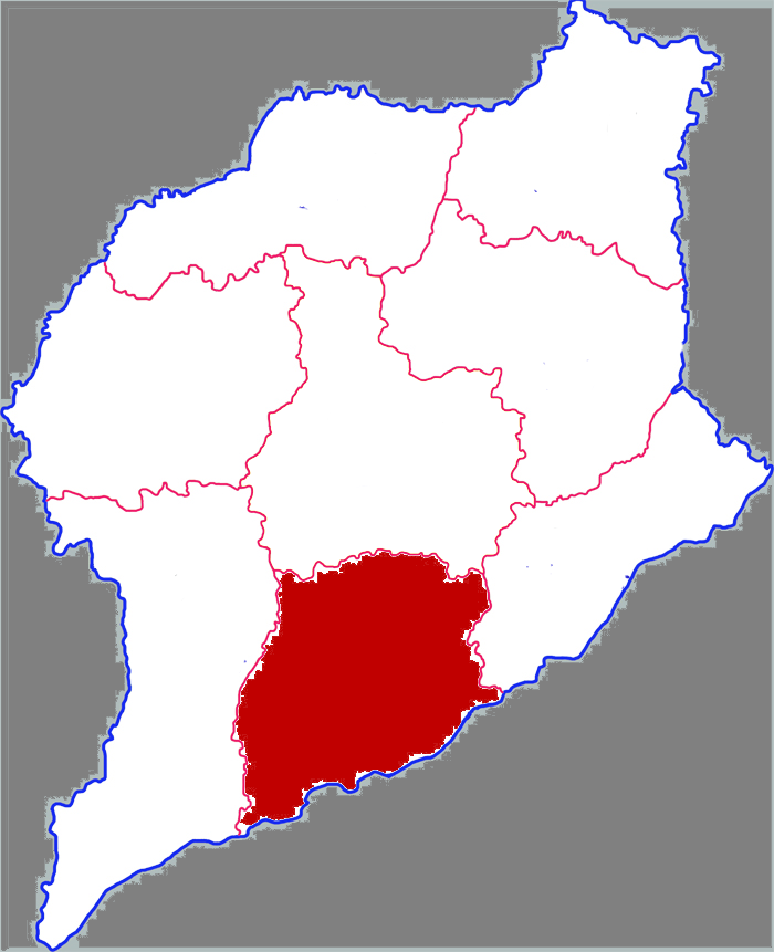 Location of Yanggu county in Liaocheng City, China